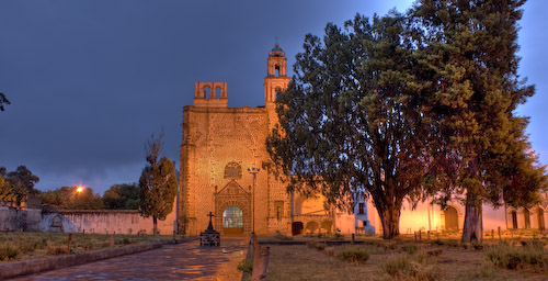 Tochimilco Puebla At Down